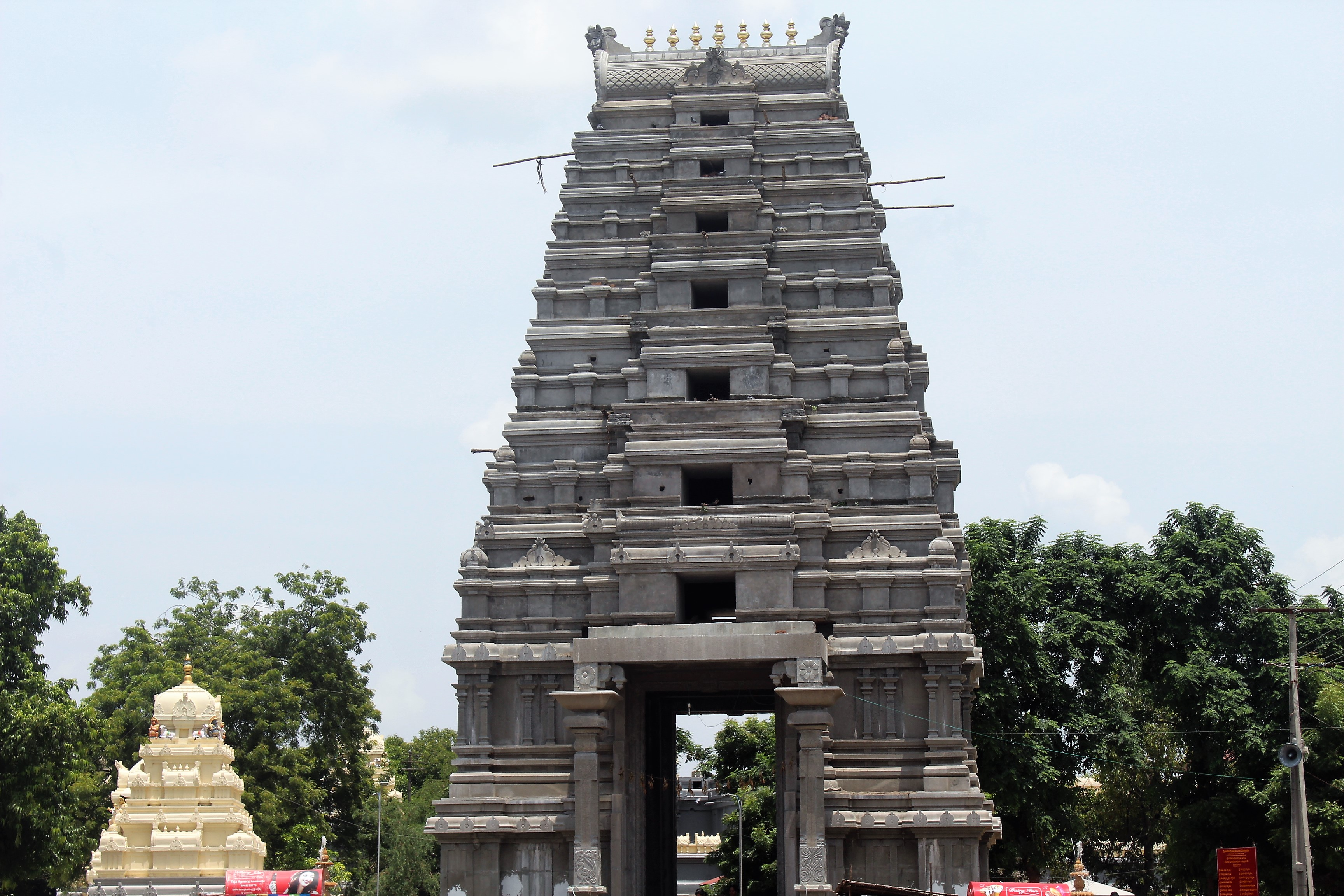 Amaralingeswara Swamy temple is located in Amararama which is one of the Pancharama Kshetras which is located at Amaravati town near Guntur City in Andhra Pradesh in southern India.